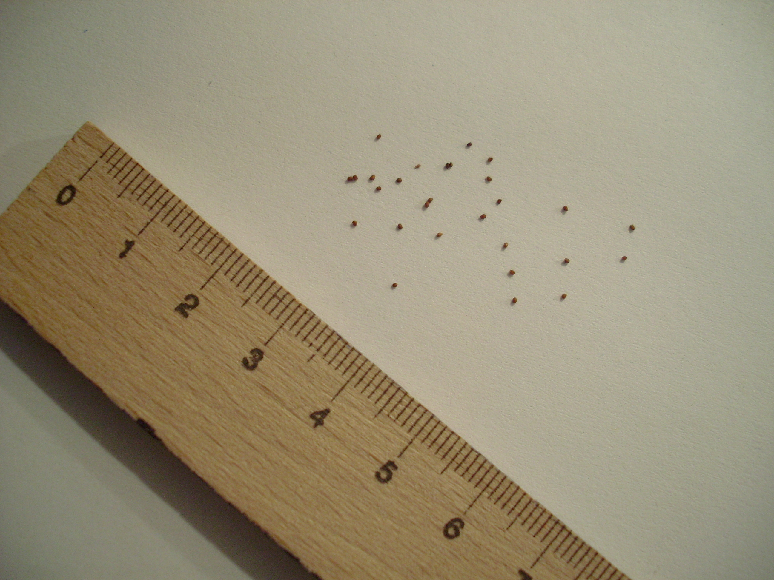 Tobacco seeds, sort: Viginia Golta